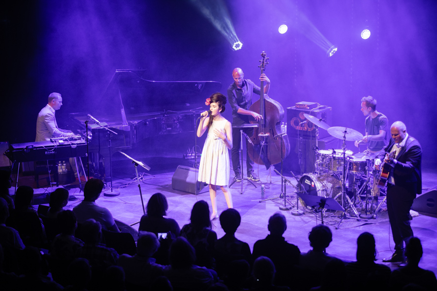 Angelina Jordan in Kongsberg Musikkteater. The concert was part of Kongsberg Jazzfestival and took place on 07. July 2018 in Kongsberg. Lineup:Angelina Jordan (vocal)Unidentified (piano)Jens Fossum (double bass)Magnus Sefaniassen Eide (drums)